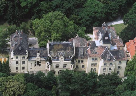 Segesd, Hungary, aerialphotography (Széchényi Mansion)